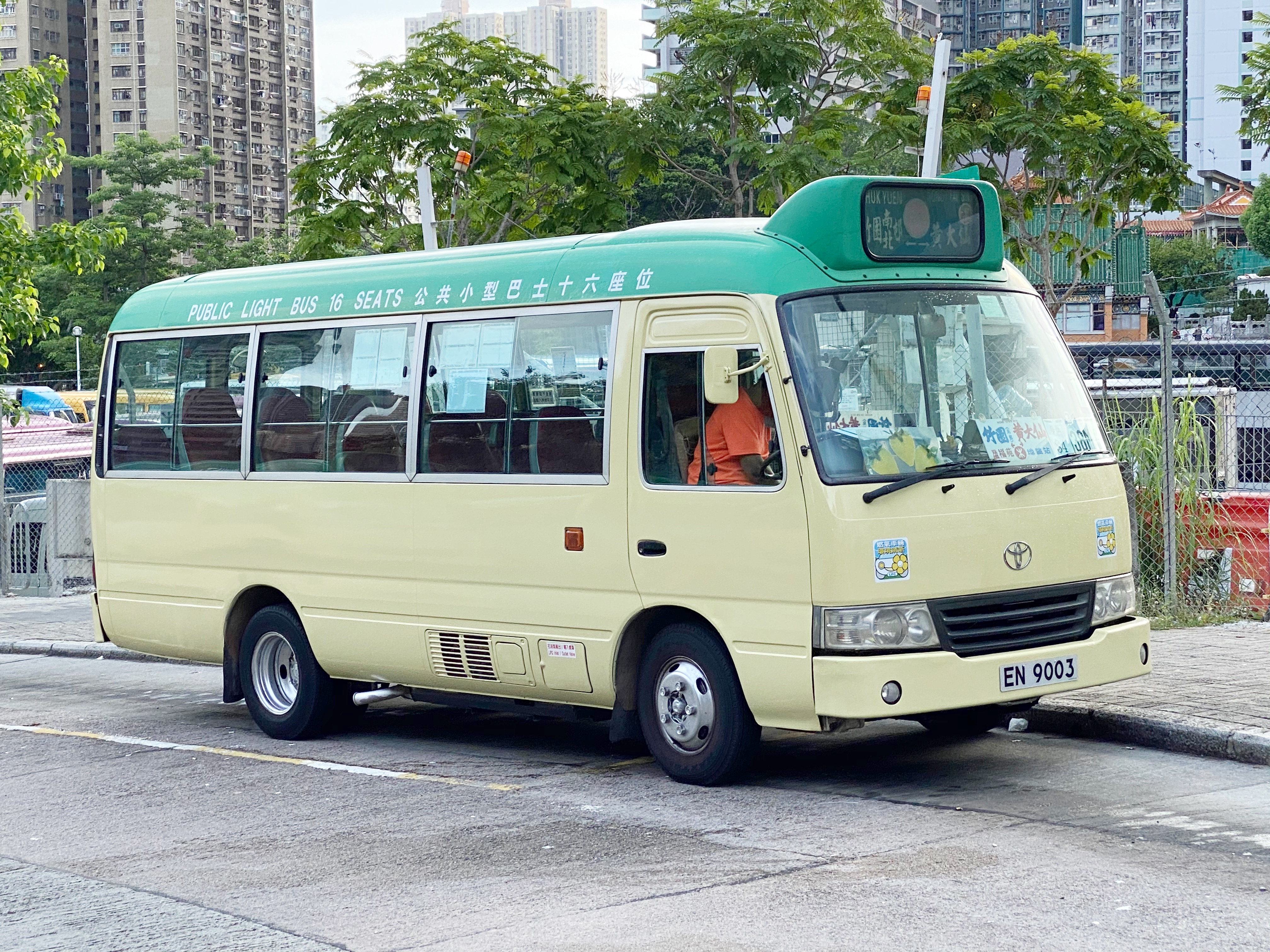 中文（香港）: This photo is taken in Wong Tai Sin.